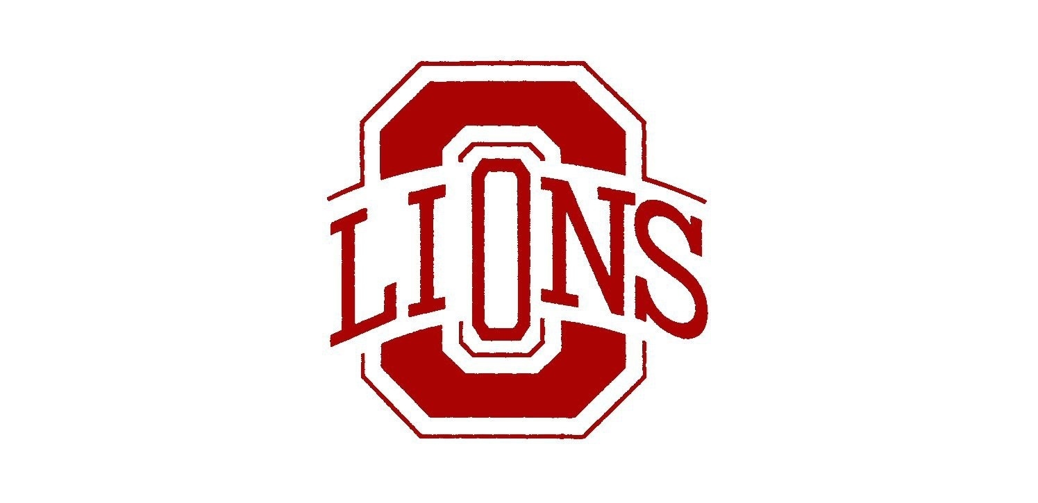 Ouachita Parish High School Logo